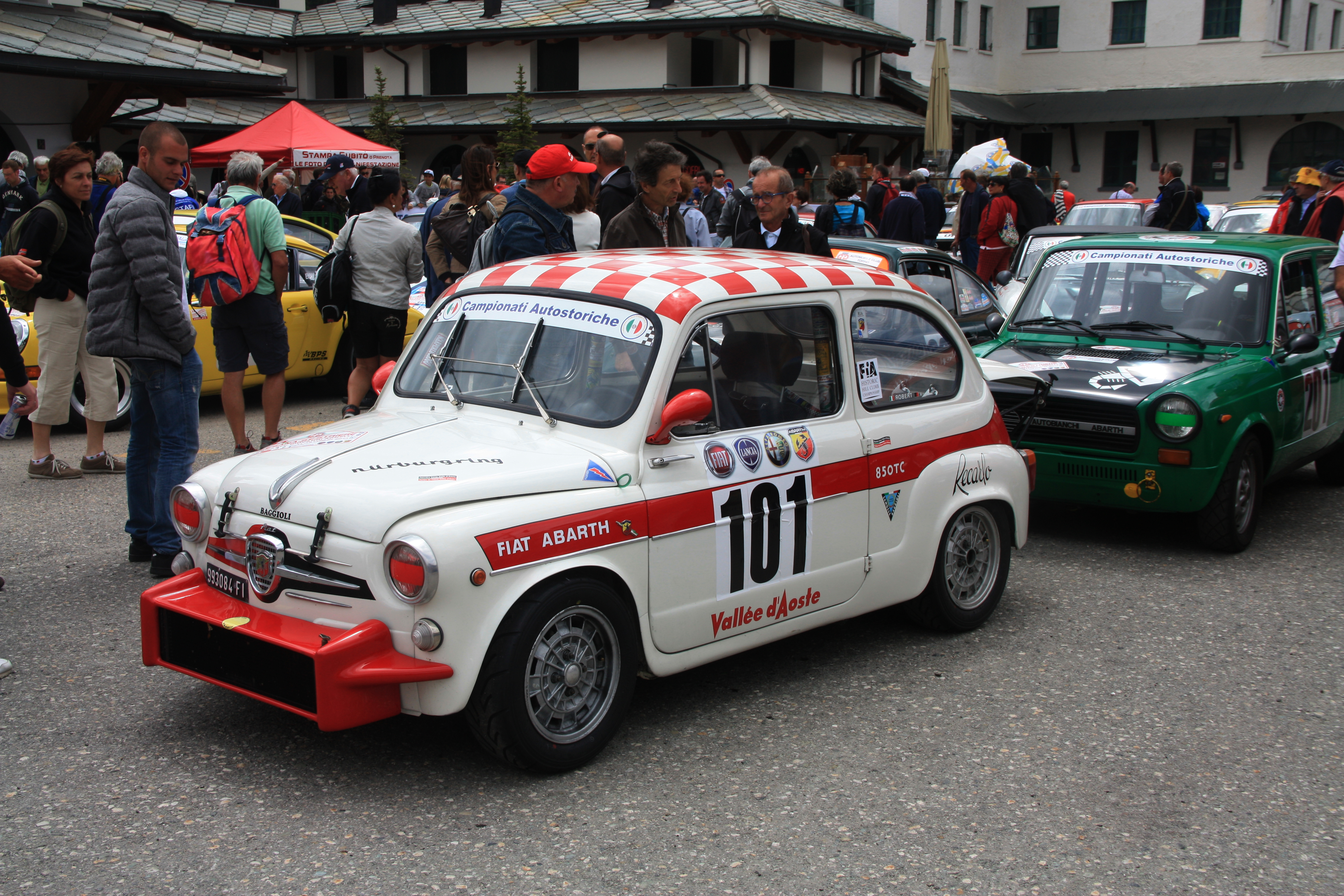 Fiat-Abarth 850 TC at the 33rd Cesana-Sestriere hillclimb, 13 July 2014.